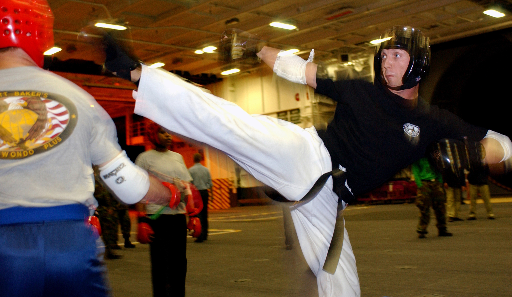 Pacific Ocean (July 6, 2004) - Senior Chief Yeoman Scott Baker, from Clinton, Mo., a 4th degree black belt and certified Tae Kwon Do instructor, spars with a student during a class held nightly aboard USS Ronald Reagan (CVN 76). Reagan is participating in Summer Pulse 2004, the simultaneous deployment of seven carrier strike groups (CSGs), demonstrating the ability of the Navy to provide credible combat across the globe, in five theaters with other U.S., allied, and coalition military forces. Summer Pulse is the Navy’s first deployment under its new Fleet Response Plan (FRP). Reagan is expected to arrive in late July to its new homeport of Naval Air Station North Island, San Diego. U.S. Navy photo by Photographers Mate Airman Aaron Burden (RELEASE) For more information go to